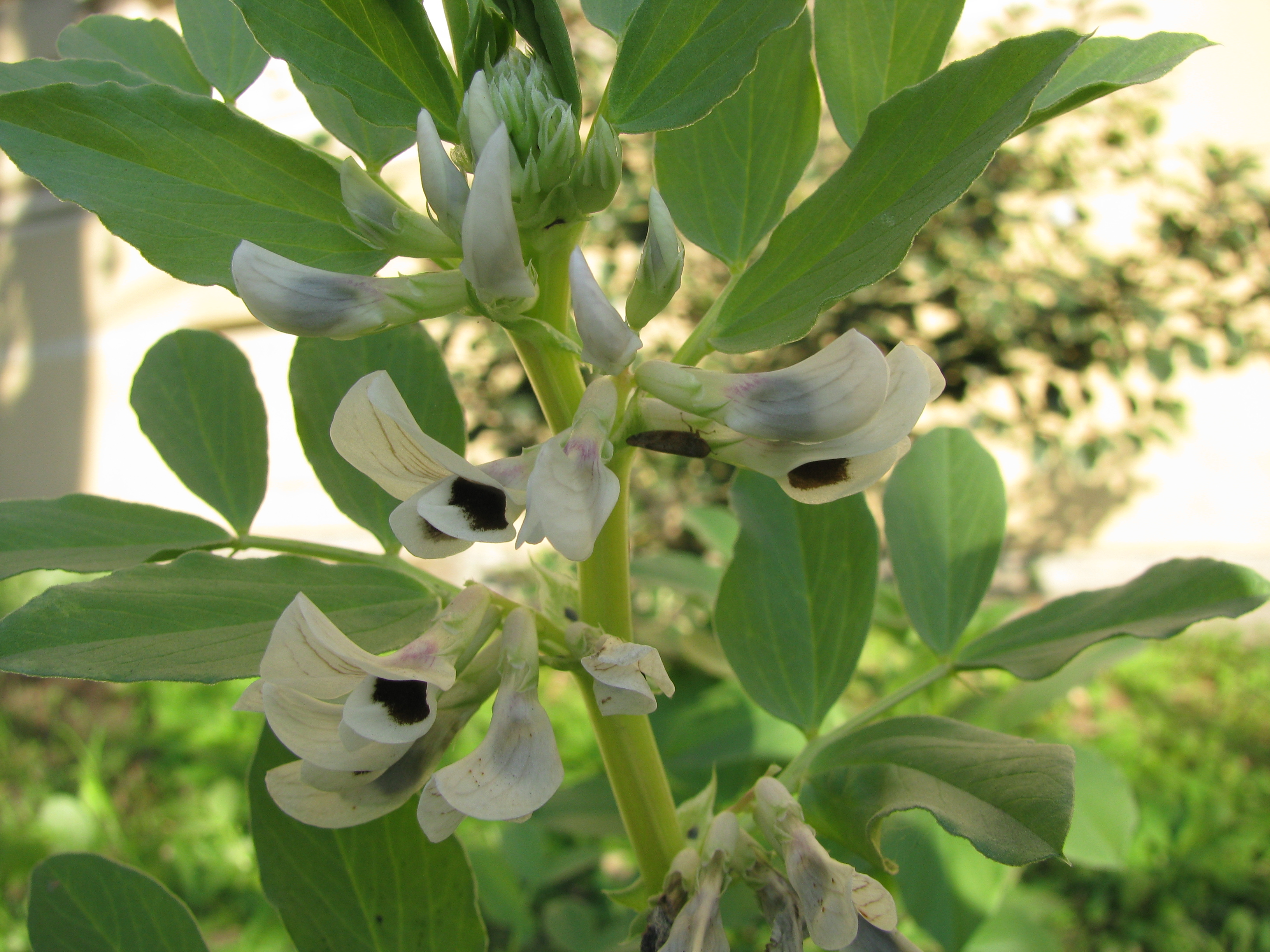 Flower of Vicia faba L. in the Archaeobotanical Garden of the Museum of Vojvodina Srpski (latinica): Cvet boba u Arheobotaničkoj bašti Muzeja Vojvodine